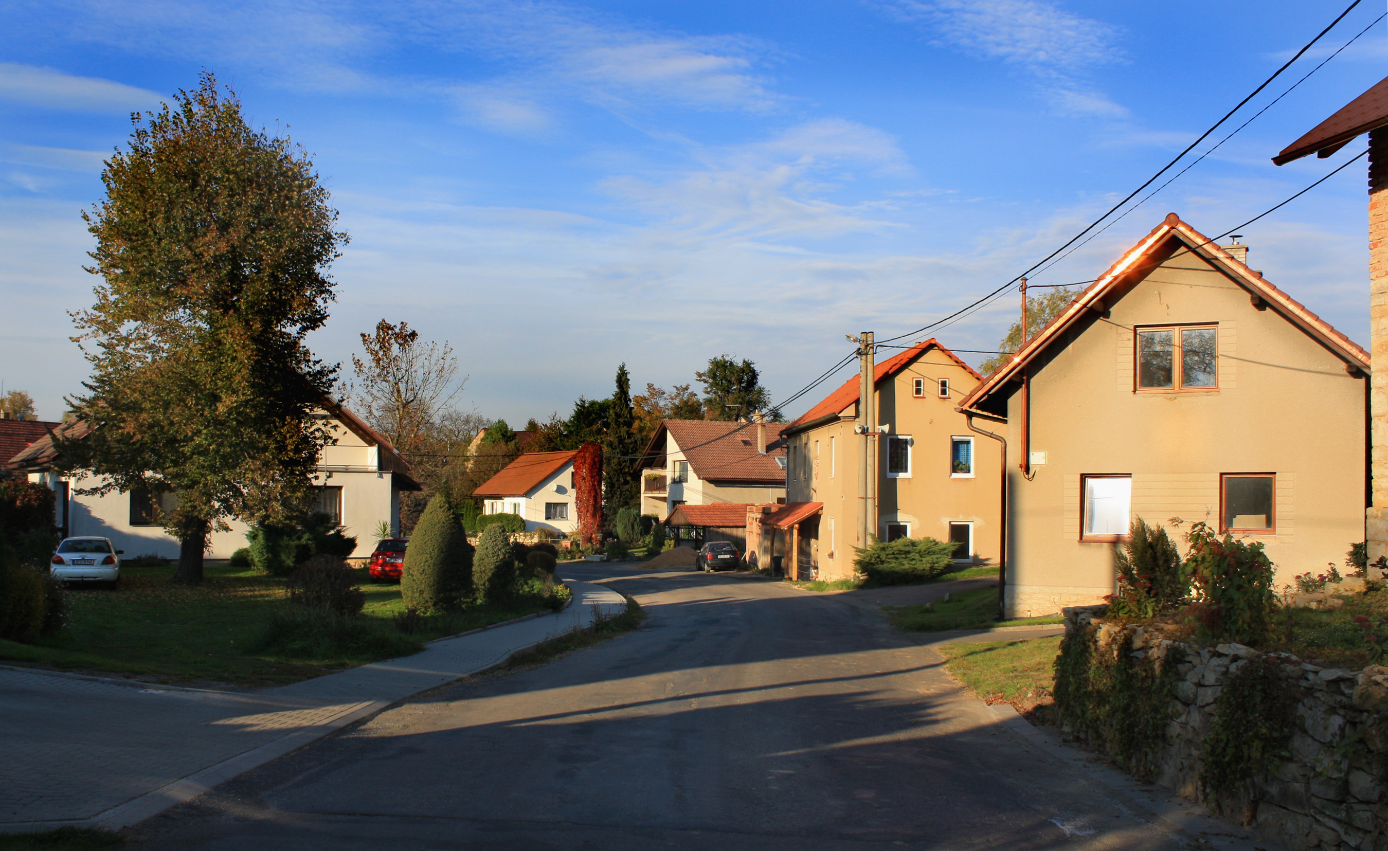 Middle part of Mostek, Czech Republic